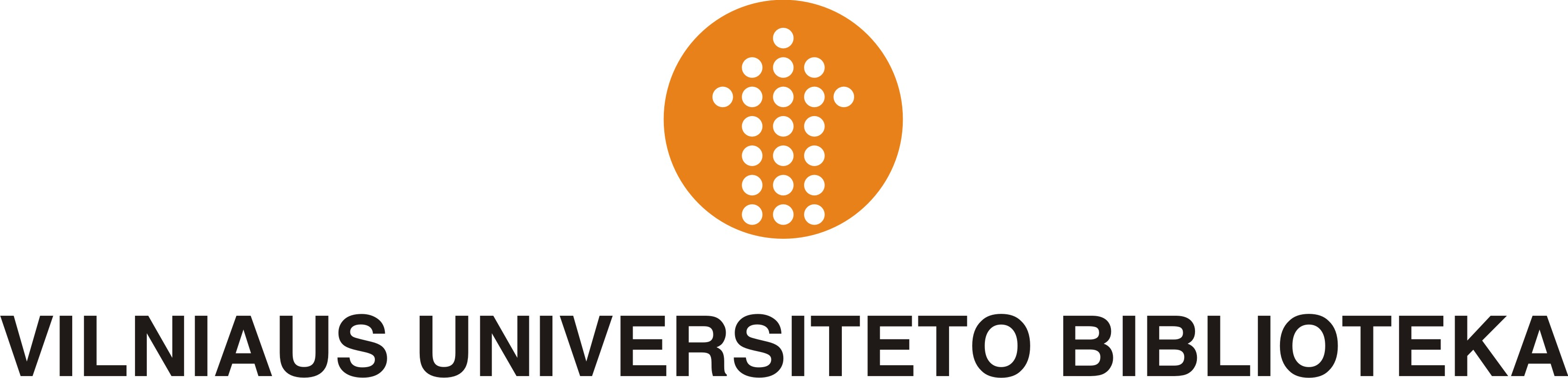 Vilnius University Library logo